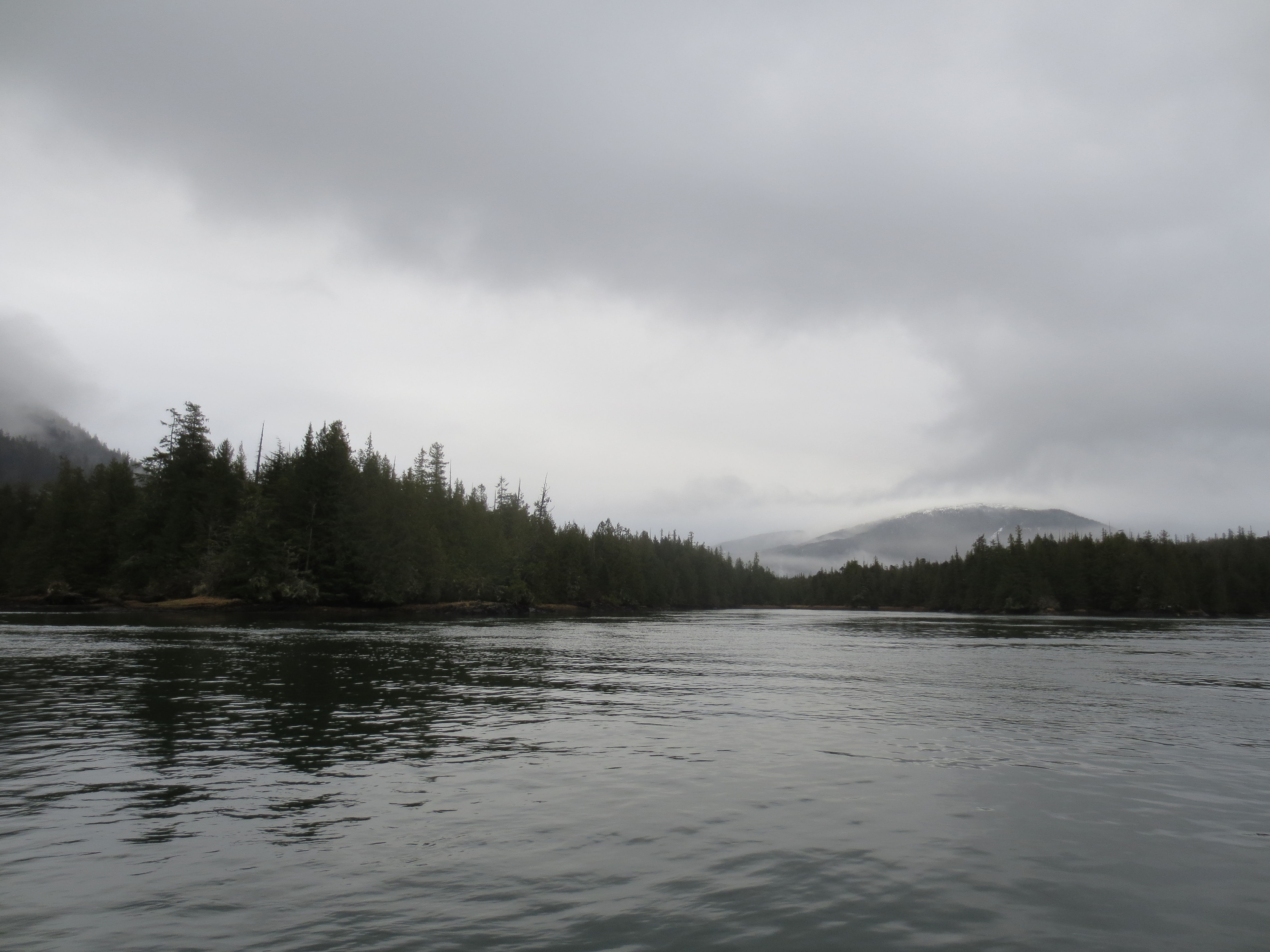 the North End of Lelu Island in Winter, as seen from the approach to Port Edward, British Columbia, Canada